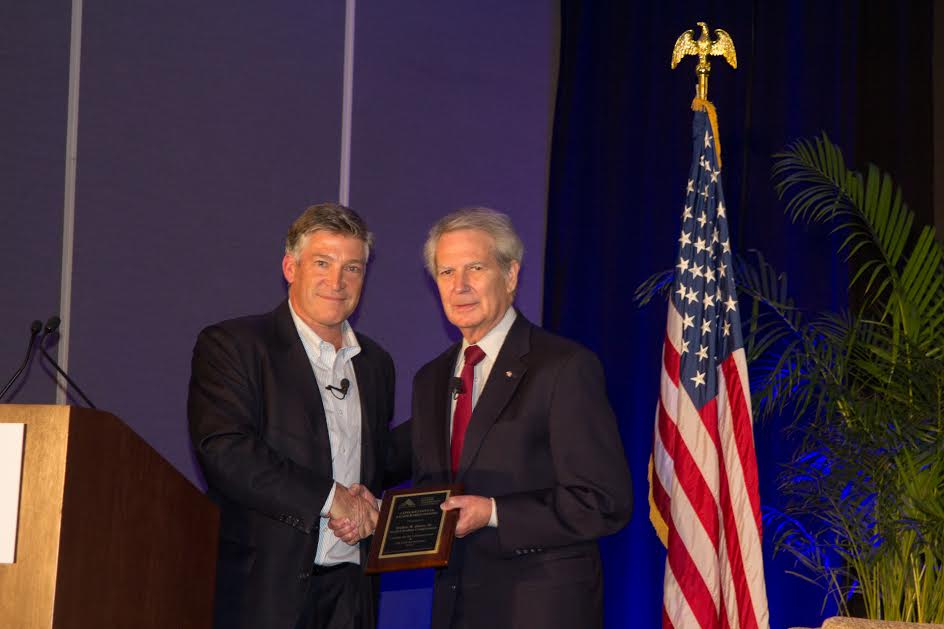 Jeff Clements, President of American Promise, presenting Congressman Walter Jones with a Congressional Leadership Award